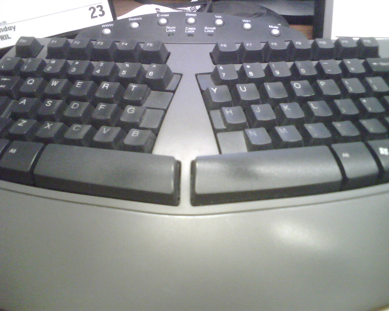 The cool, ergonomic keyboard on my deskMy keyboard